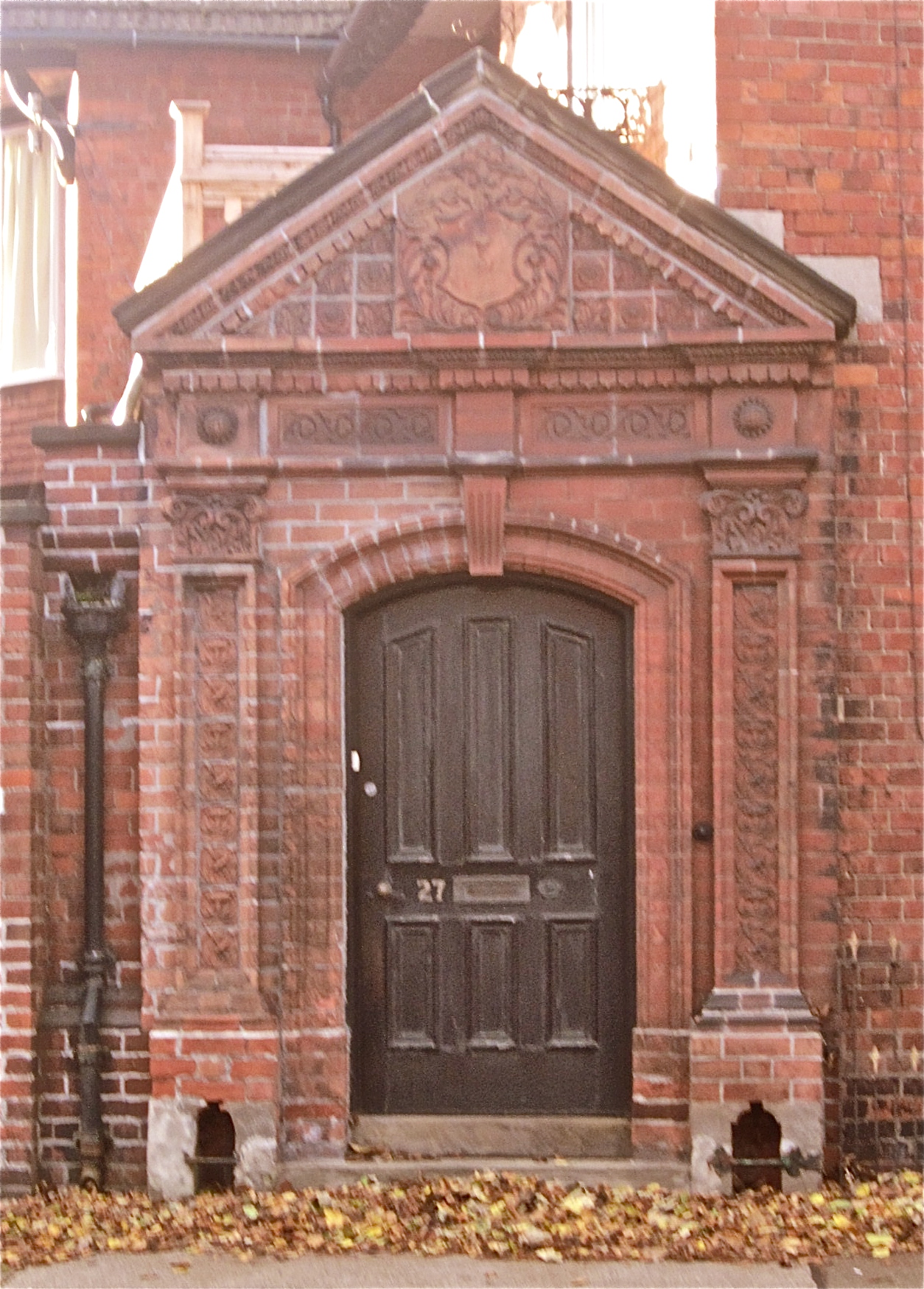 Classical archway of Terracotta c1880, at 27 Wragby Road, Lincoln. Probably the work of the Lincoln firm Fambrini and Daniels.